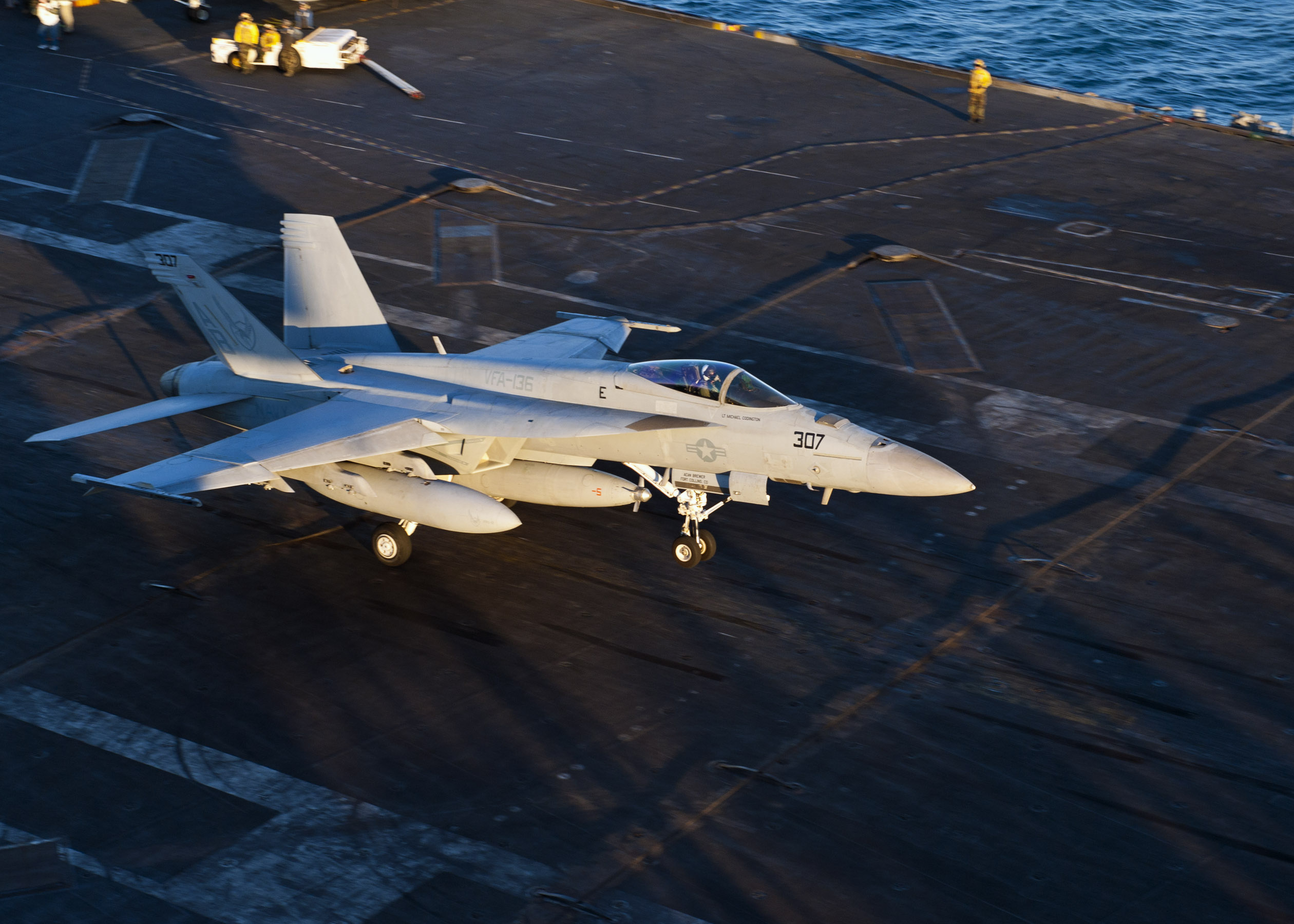 U.S. Navy Capt. William C. Hamilton Jr., commanding officer of the aircraft carrier USS Enterprise (CVN-65), performs the last trap ever aboard the ship. Capt. Hamilton flew a Boeing FA-18E Super Hornet from Strike Fighter Squadron 136 "Knight Hawks". VFA-136 had been assigned to Carrier Air Wing 1 (CVW-1) aboard the "Big E" for a deployment to the Mediterranean Sea and the Indian Ocean from 11 March to 4 November 2012. The Enterprise arrived at Naval Station Norfolk, Virginia (USA), on 4 November 2012. The "Big E"'s return to Norfolk was the 25th and final homecoming of her 51 years of distinguished service.